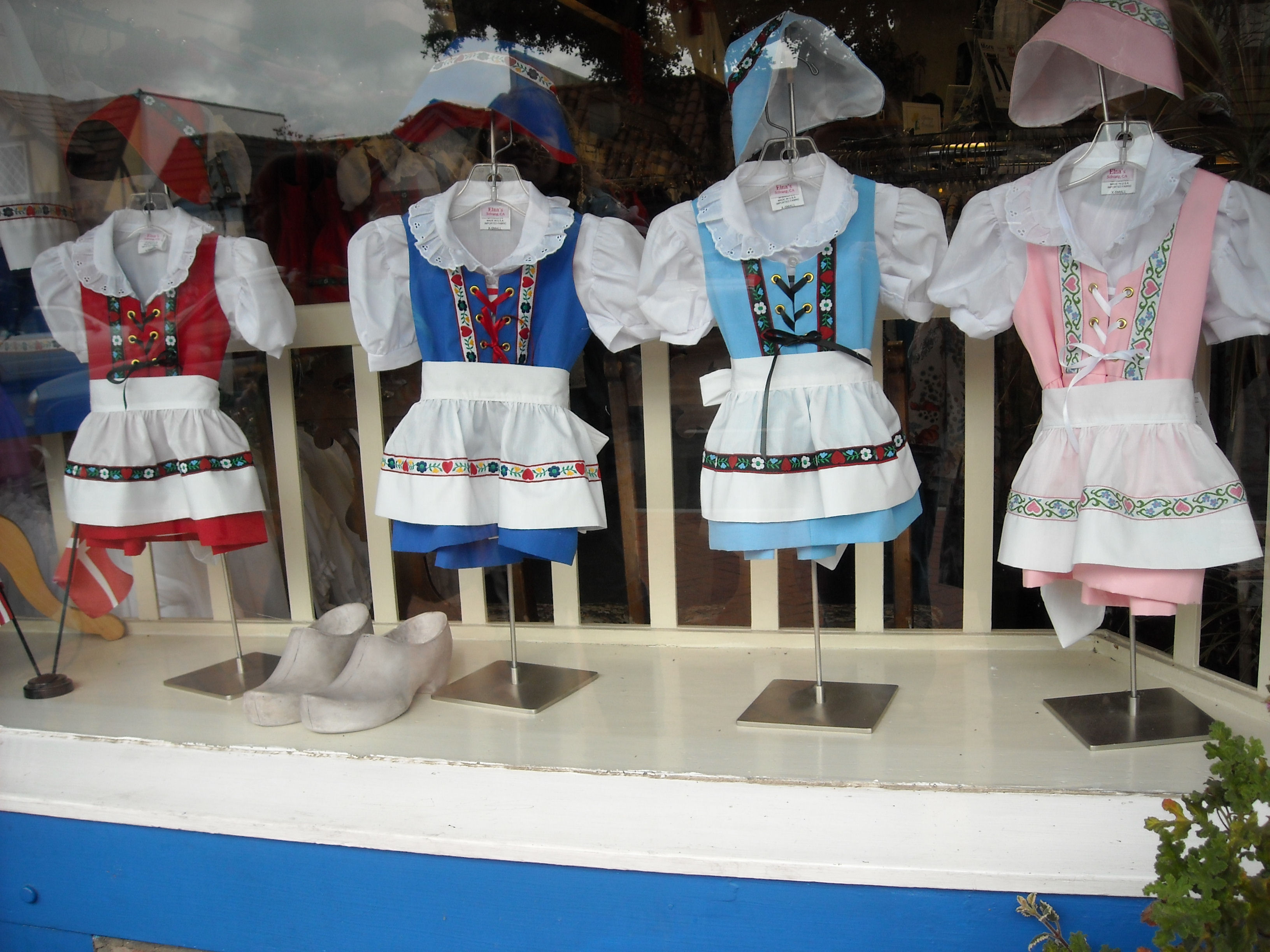 Solvang, California. "Danish" costumes for girls displayed in Elna's shop window.